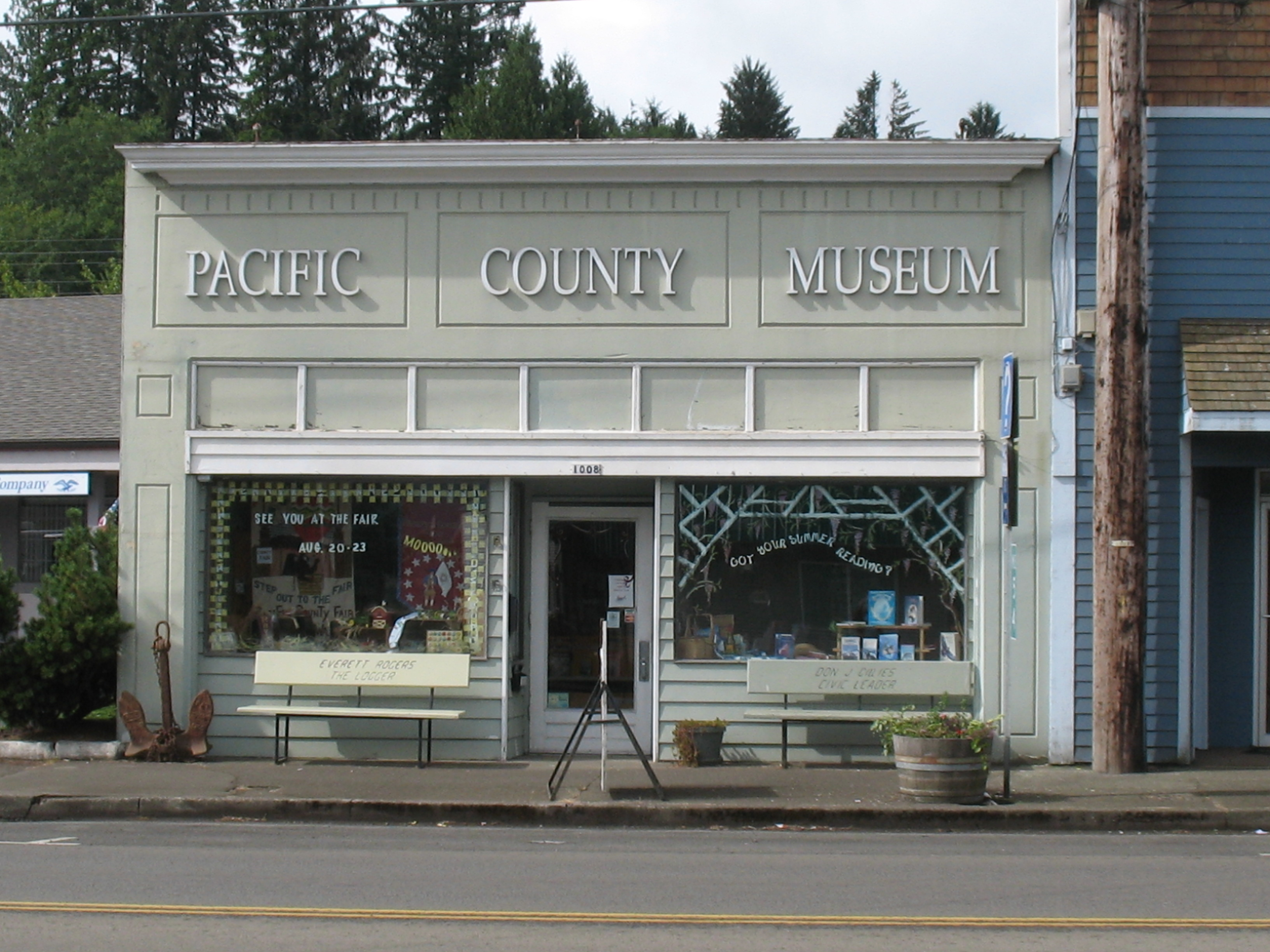 Pacific County Museum in South Bend, Washington